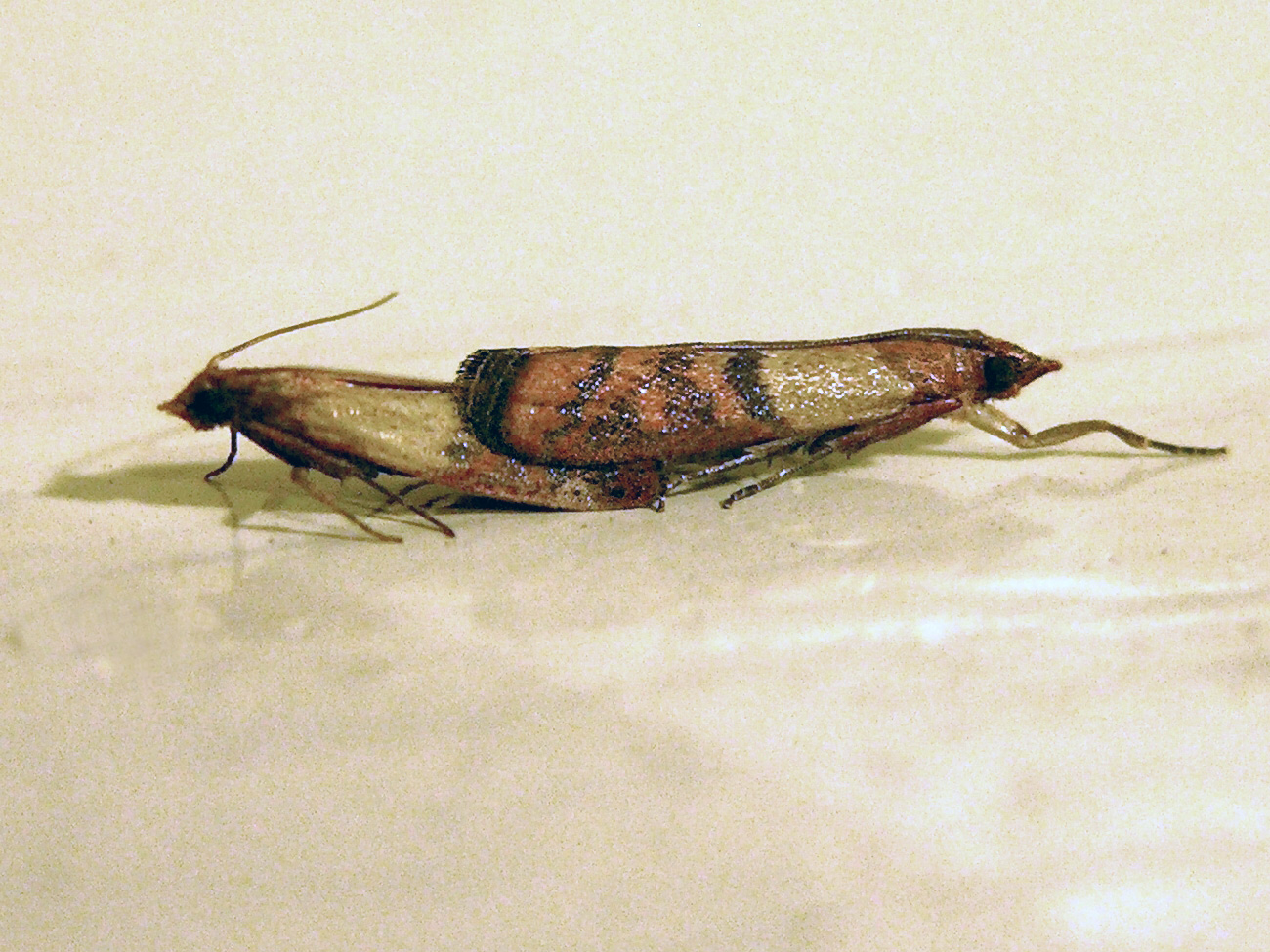 En Indian meal moth (Plodia interpunctella) mating. This picture was taken with a Nikon Coolpix 8700. ISO 200 f3.30 1/4.1 Es Pareja de la palomilla india de la harina (Plodia interpunctella) apareándose. Fotografía tomada con una cámara Nikon Coolpix 8700. ISO 200 f3.30 1/4.1